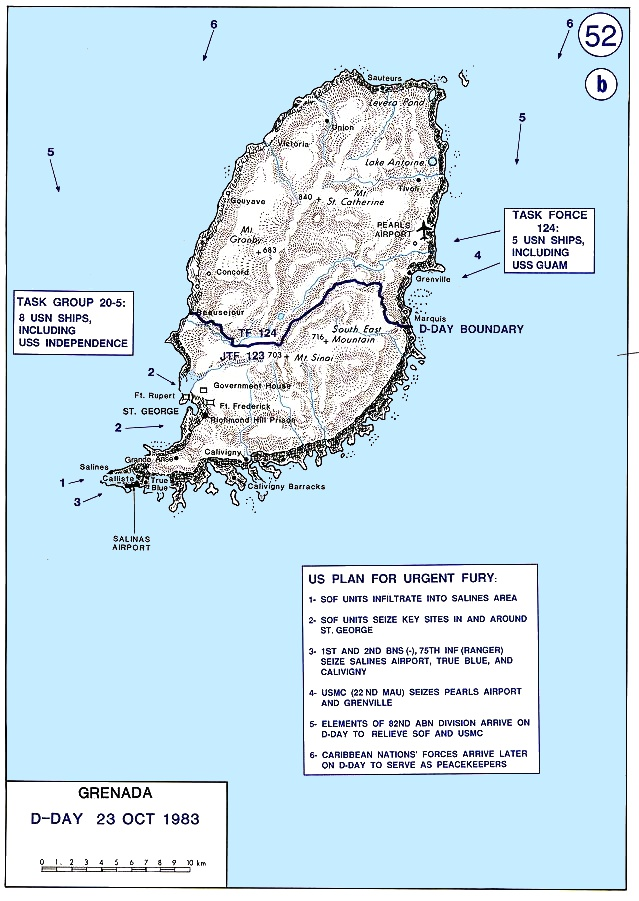 Invasion of Grenada by US and Caribbean nations, 1983.